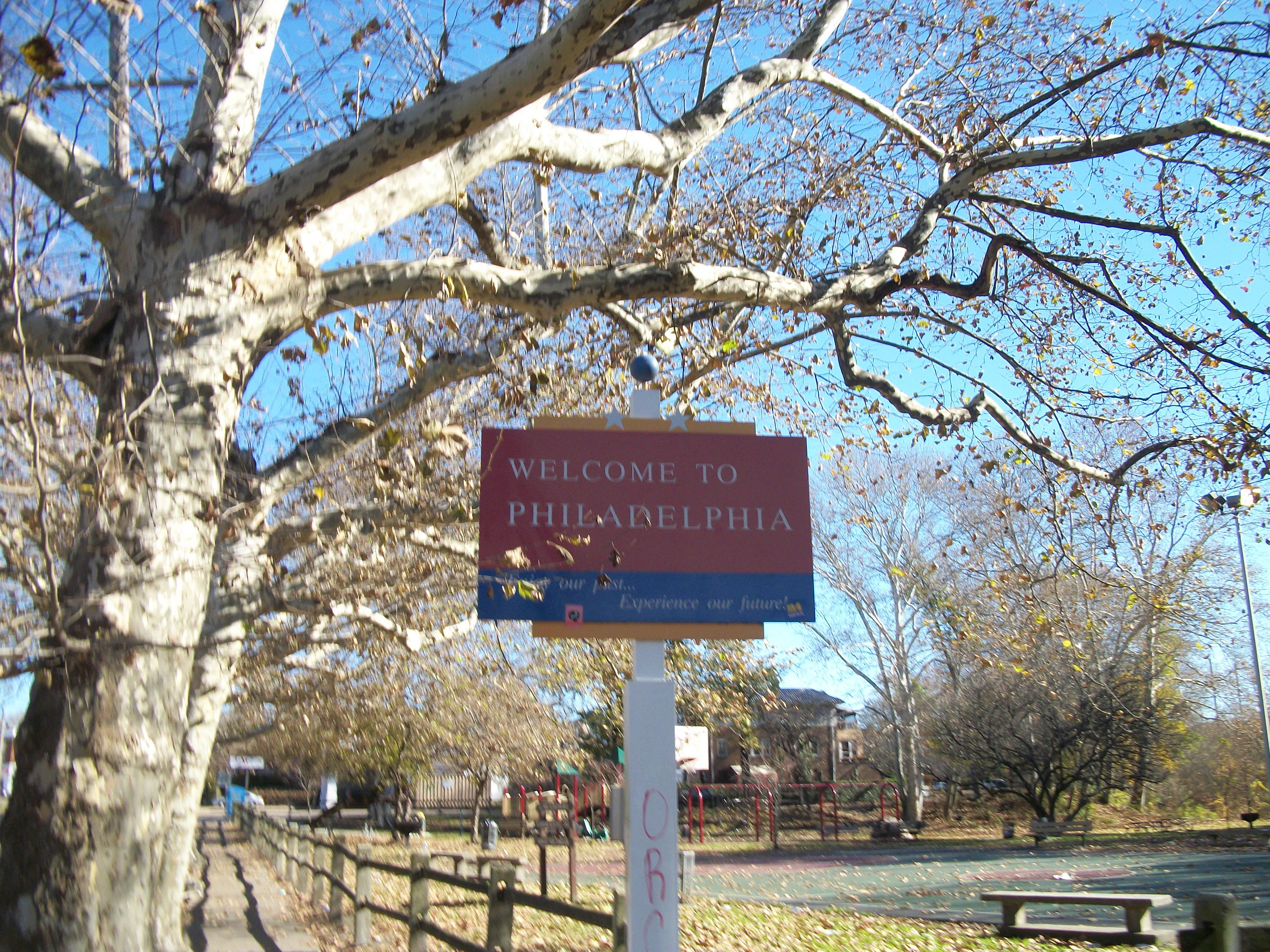 Sign welcoming northeast bound motorists along U.S. Route 13/Baltimore Pike to Philadelphia. To your right is a local playground known as the Baltimore Recreational Area.